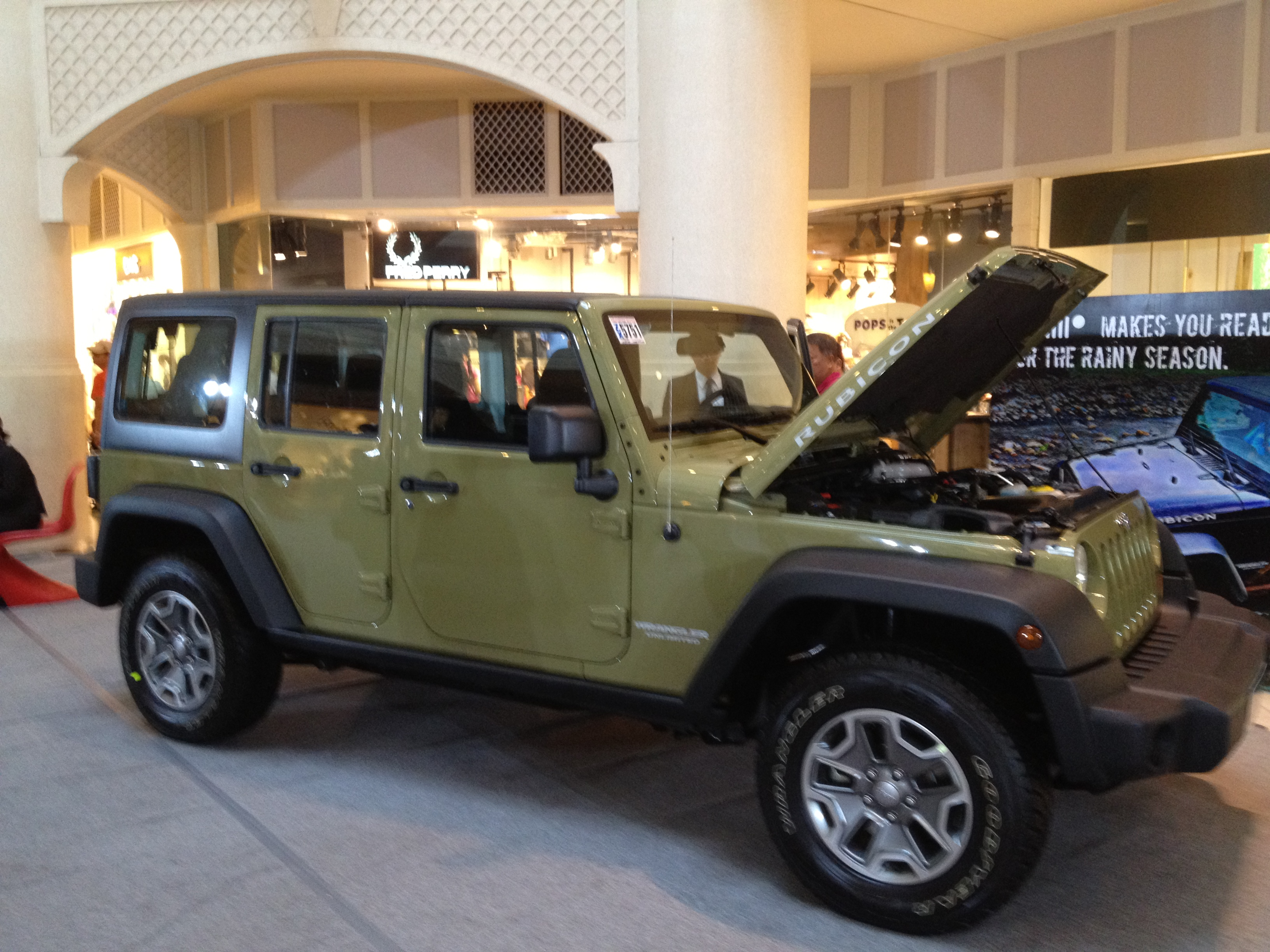 A 2013 Jeep Wrangler Rubicon hardtop model on display by Jeep Philippines at the Power Plant Mall, Rockwell Center, Makati, Philippines. Engine hodd cover is open.